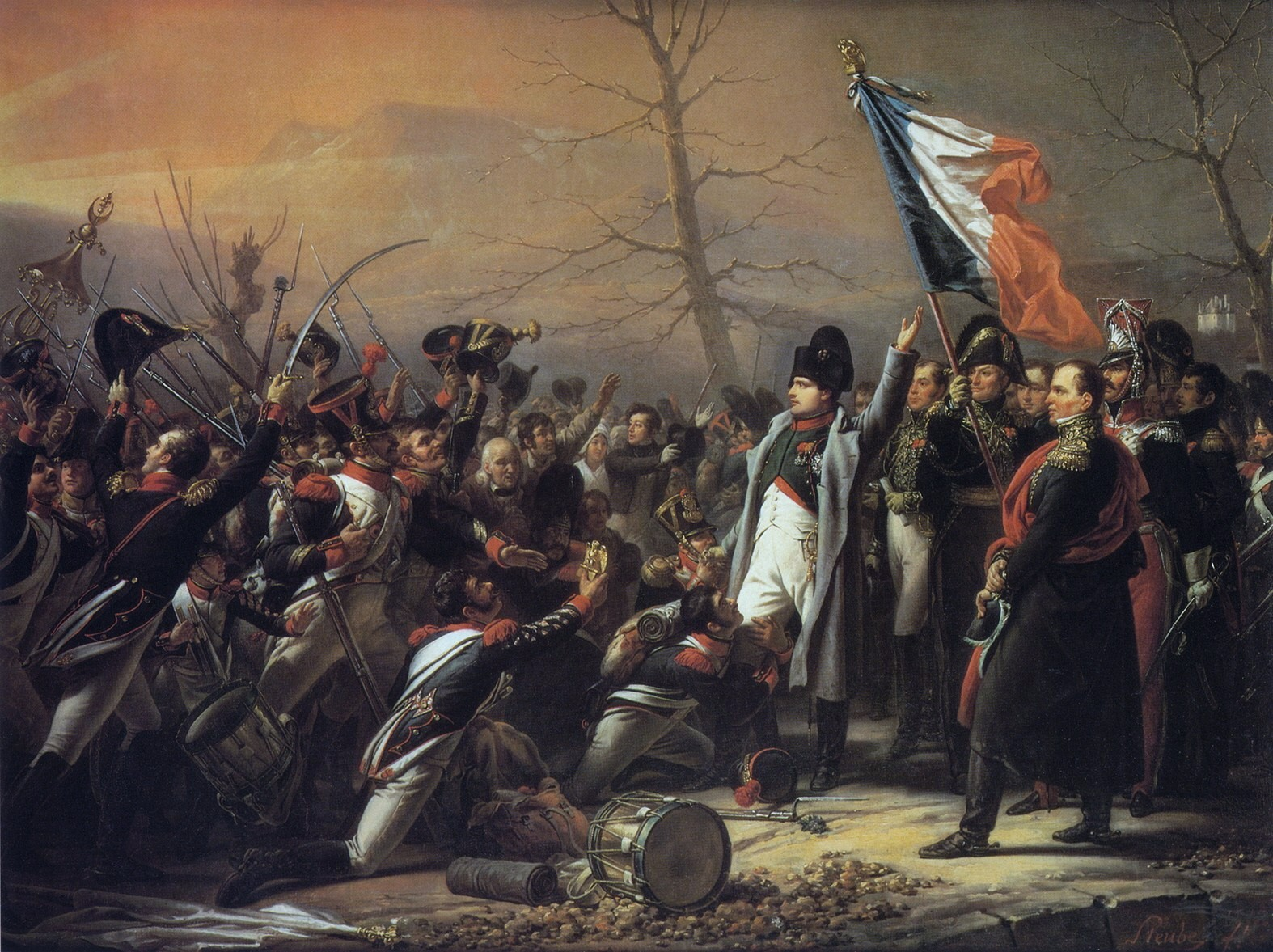 Napoleon greeted by the 5th Regiment at Grenoble, 7 March 1815, after his escape from Elba